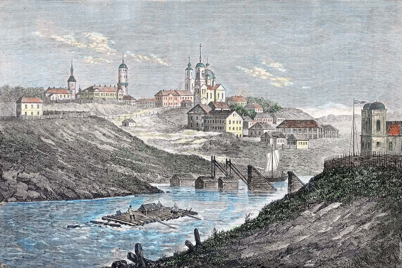 Mahiloŭ